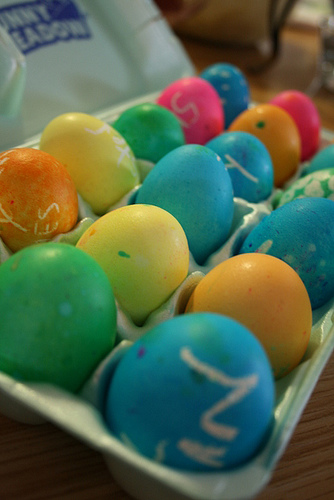 Easter Eggs by Mystaric on Flickr